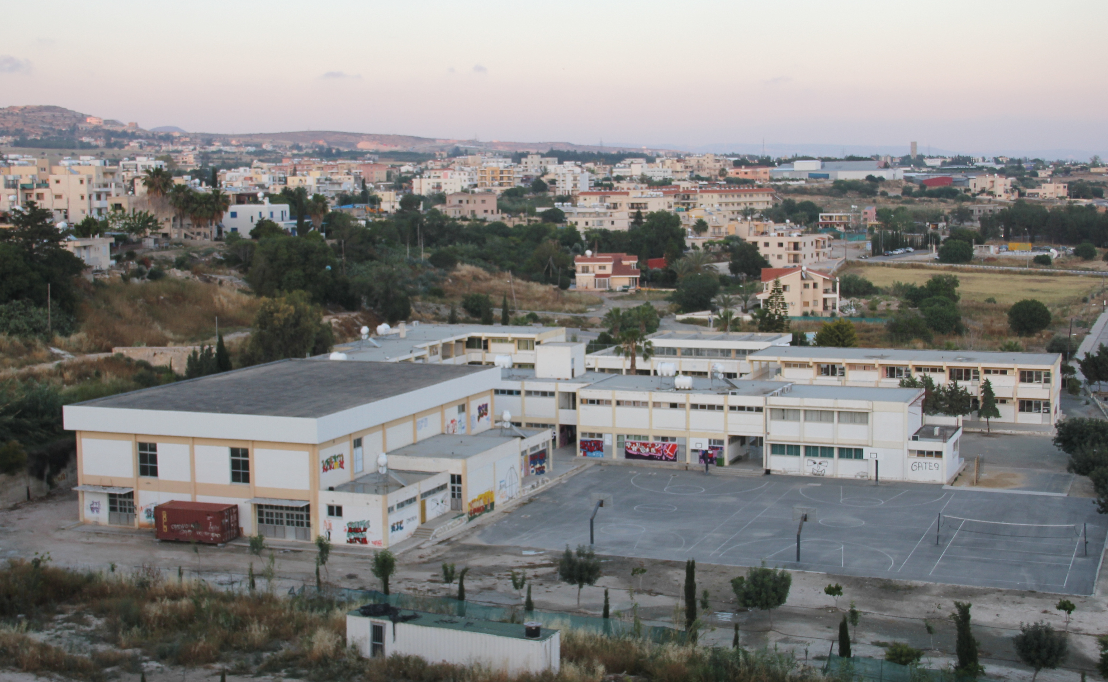 Yeroskipou Elementary School, Cyprus